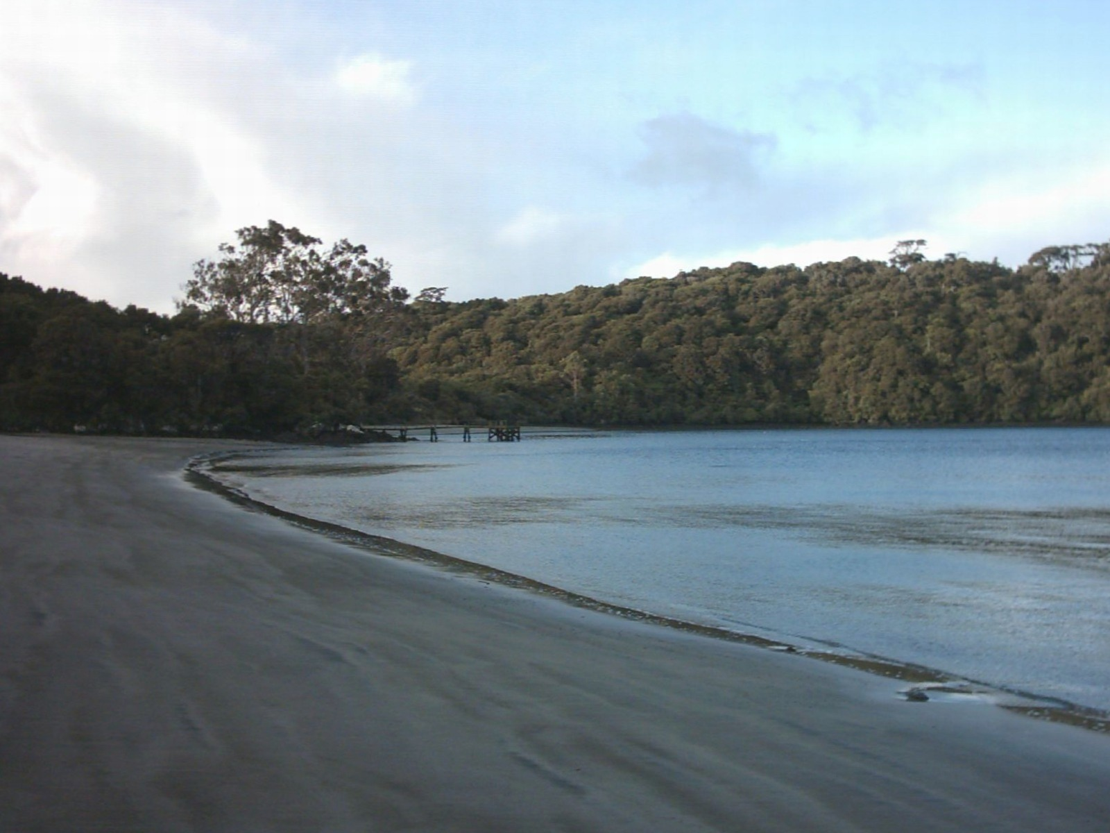 Southeast of, and near to, Port William Hut on the Rakiura Track, Rakiura National Park, Stewart Island, New Zealand. Picture taken looking to the northwest.